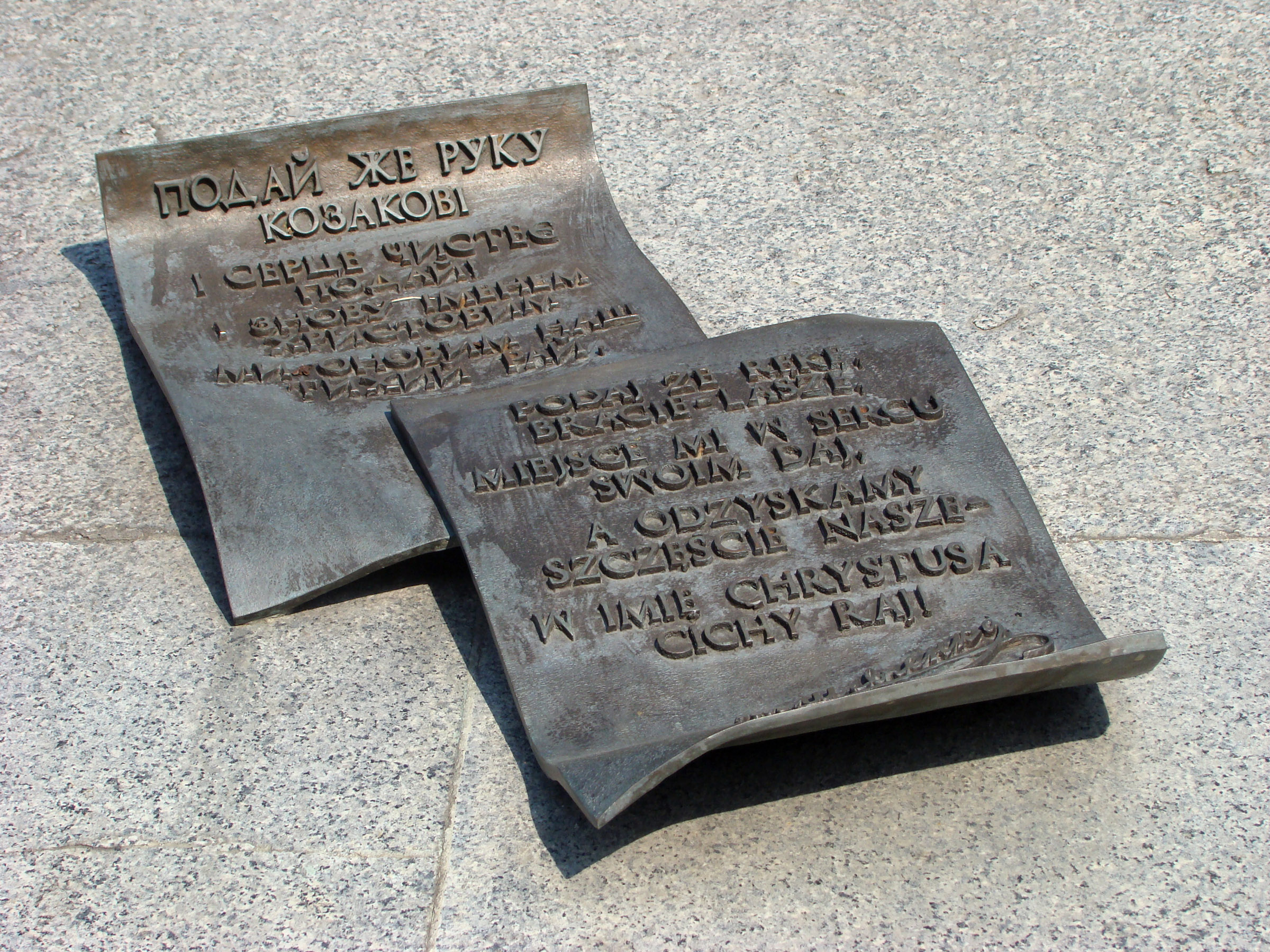 Taras Shevchenko, Ukrainian poet, Warsaw monument